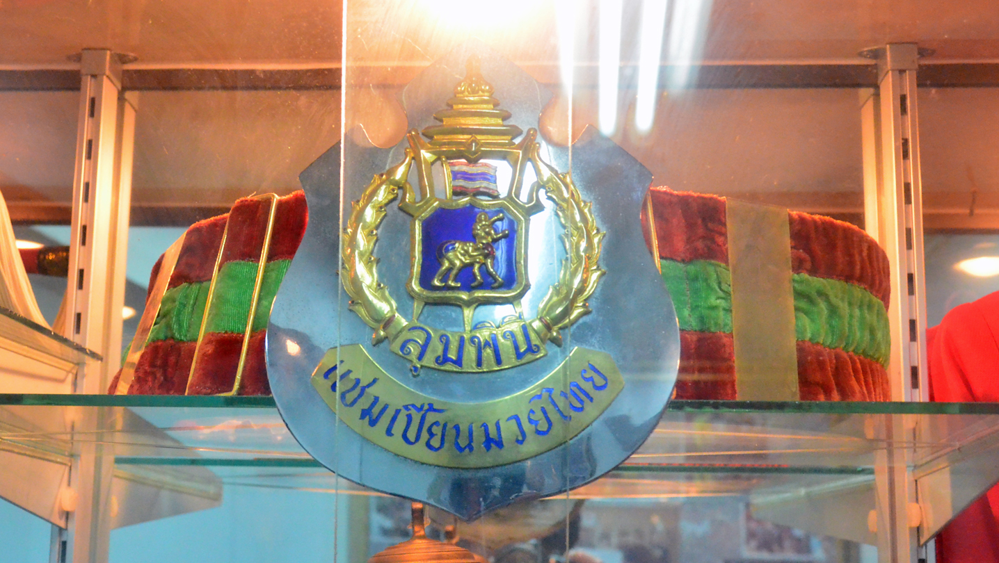 Muay Thai champion belt of Lumpinee